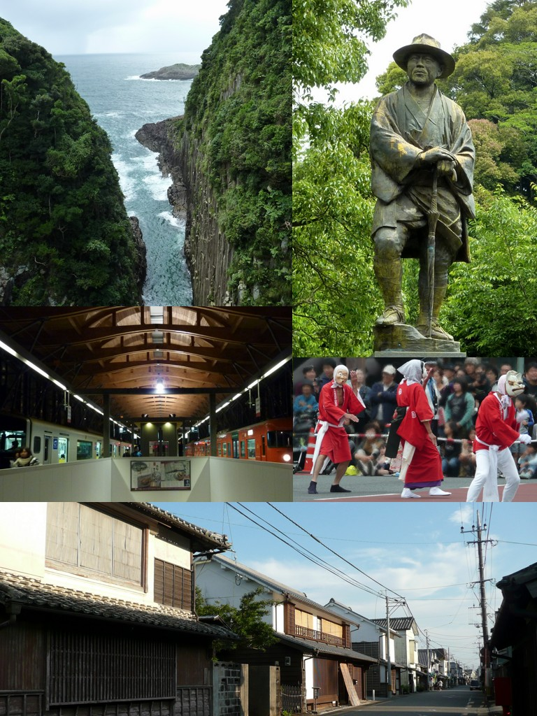 Montage of various Hyuga City images (Miyazaki Prefecture, Japan)